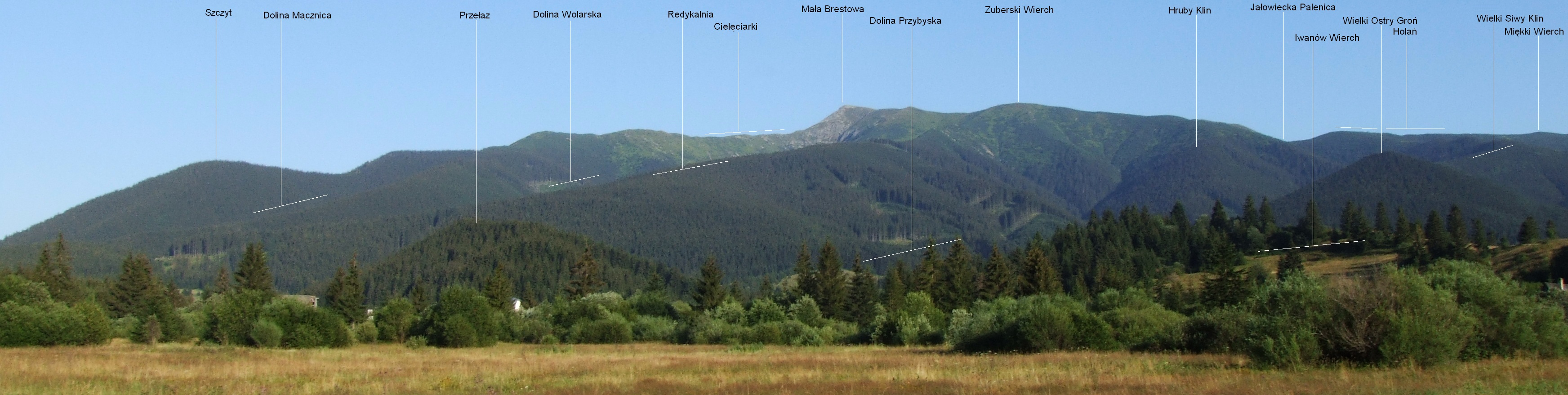 View from Zuberec